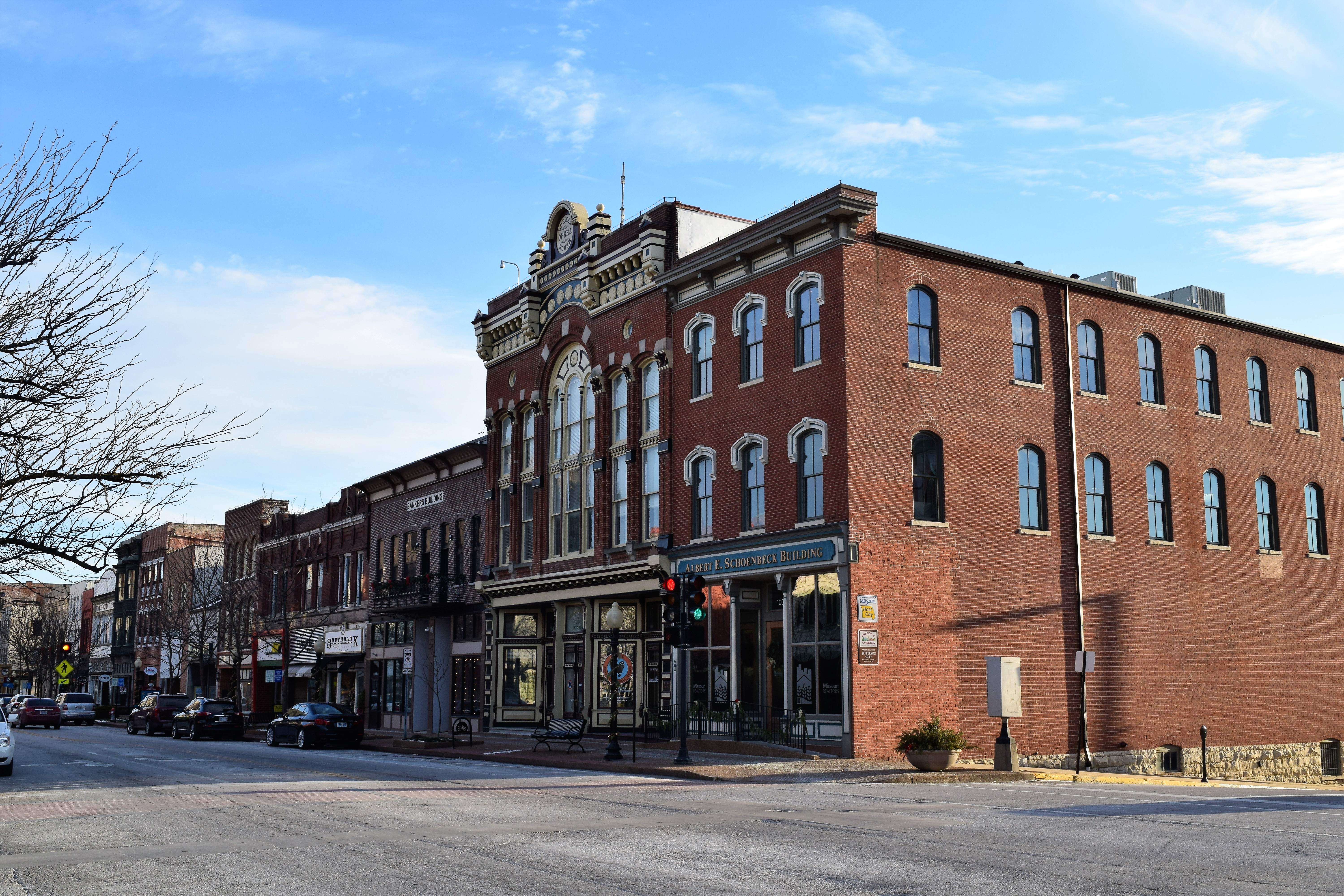 Buildings on the south (even) side of the 100 block of East High Street in Jefferson City, Missouri.